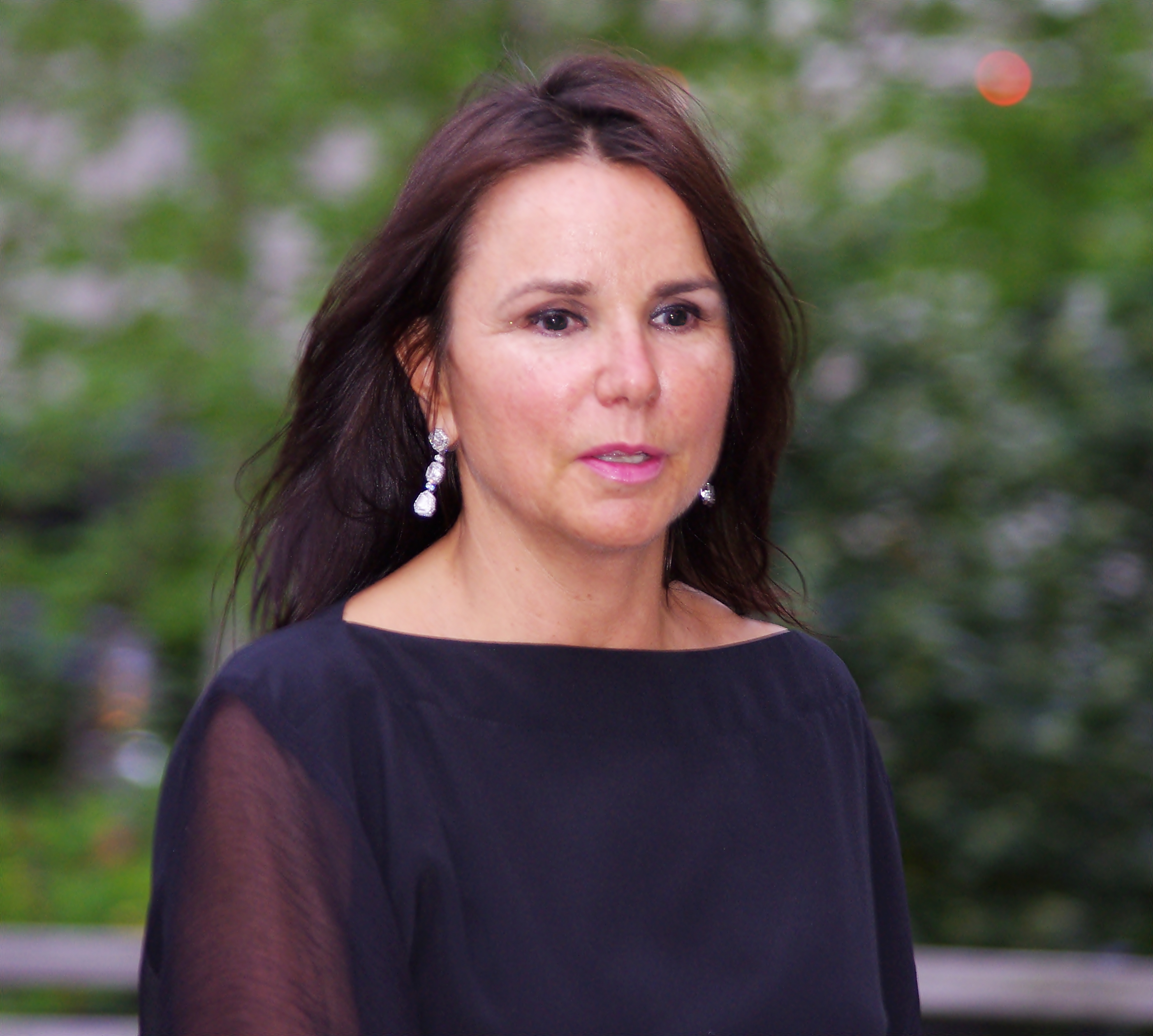 Patty Smyth at the Vanity Fair party celebrating the 10th anniversary of the Tribeca Film Festival.